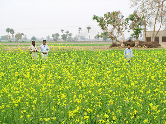 Bahawalnagar, Punjab, Pakistan